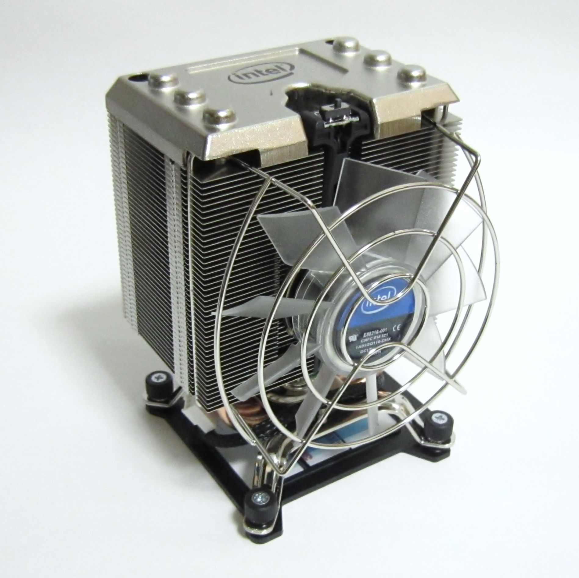 Intel Thermal Solution XTS100H for LGA 1156 CPUs.